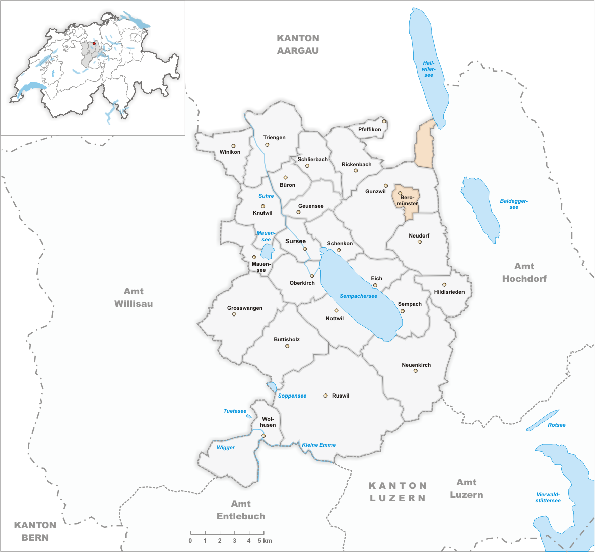 Municipality Beromünster